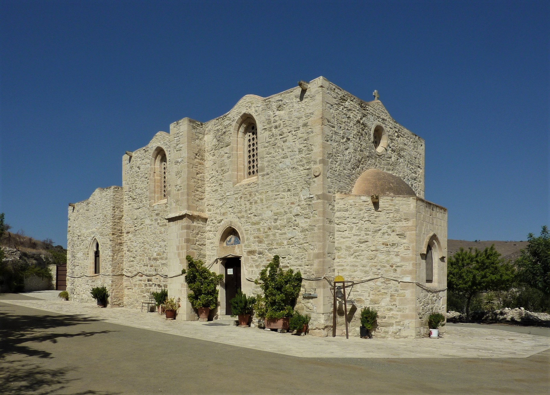 Panagia Stazousa, Cyprus, near Larnaca